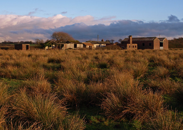 South Lissens Cottage Derelict cottage and out buildings bathed in afternoon winter sun.